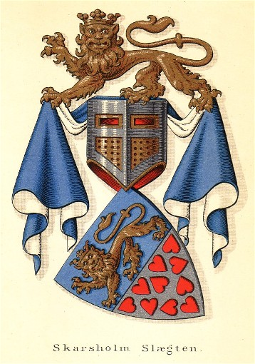 Coat of arms of the Skarsholm family